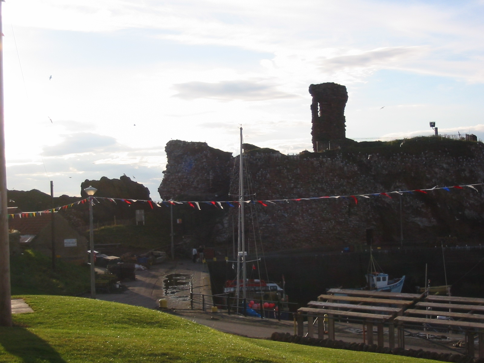 Dunbar Harbour and Castle ruins. Photo by E Asterion u talking to me? 22:24, 11 June 2006 (UTC)